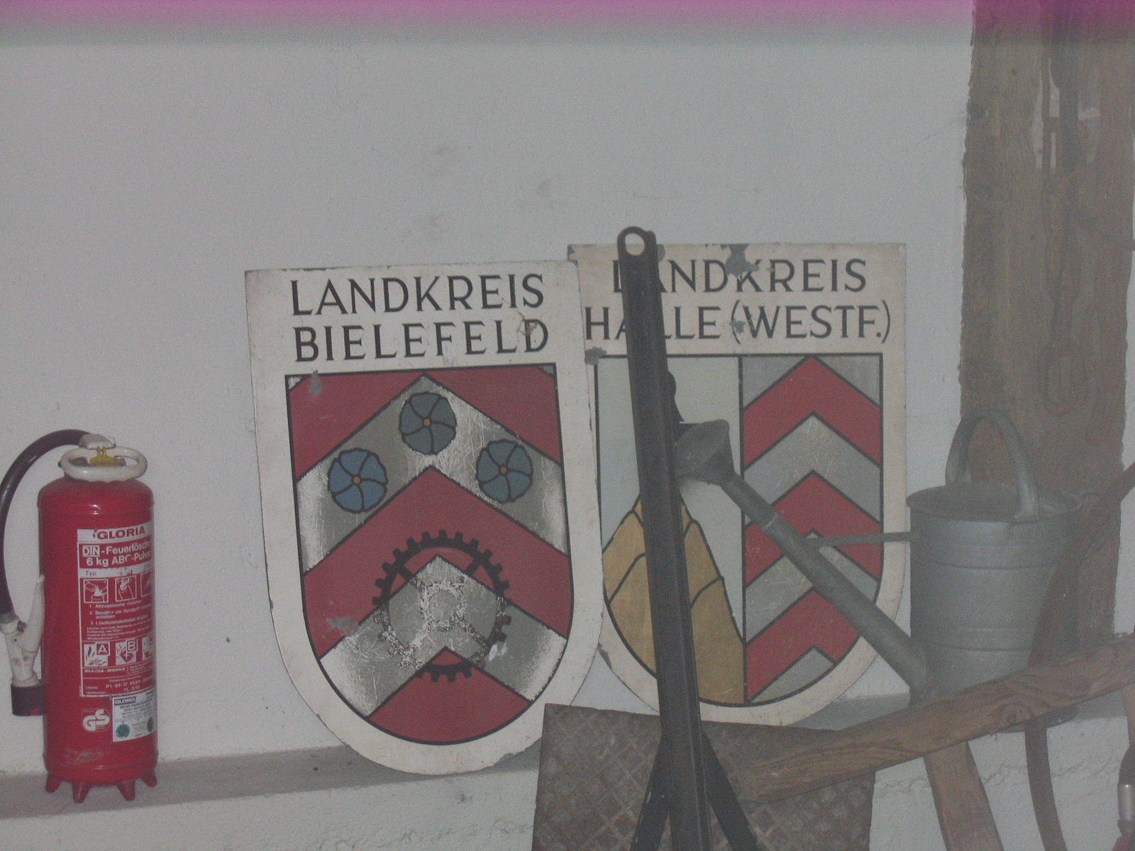 Museum of firefighting in Kirchlengern-Häver, County of Herford, North Rhine-Westphalia, Germany.